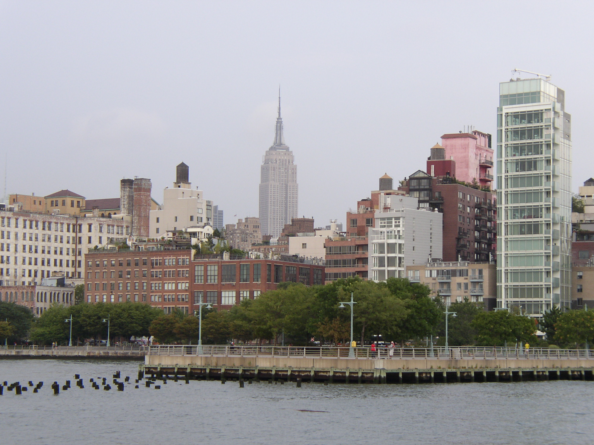 View to the Empire States Building over Greenwich Village from Hudson River Park